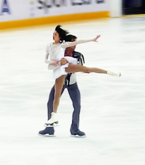 Alexander Smirnov & Yuko Kawaguchi. Cup of Russia, held in Khodynka Arena in 2008.